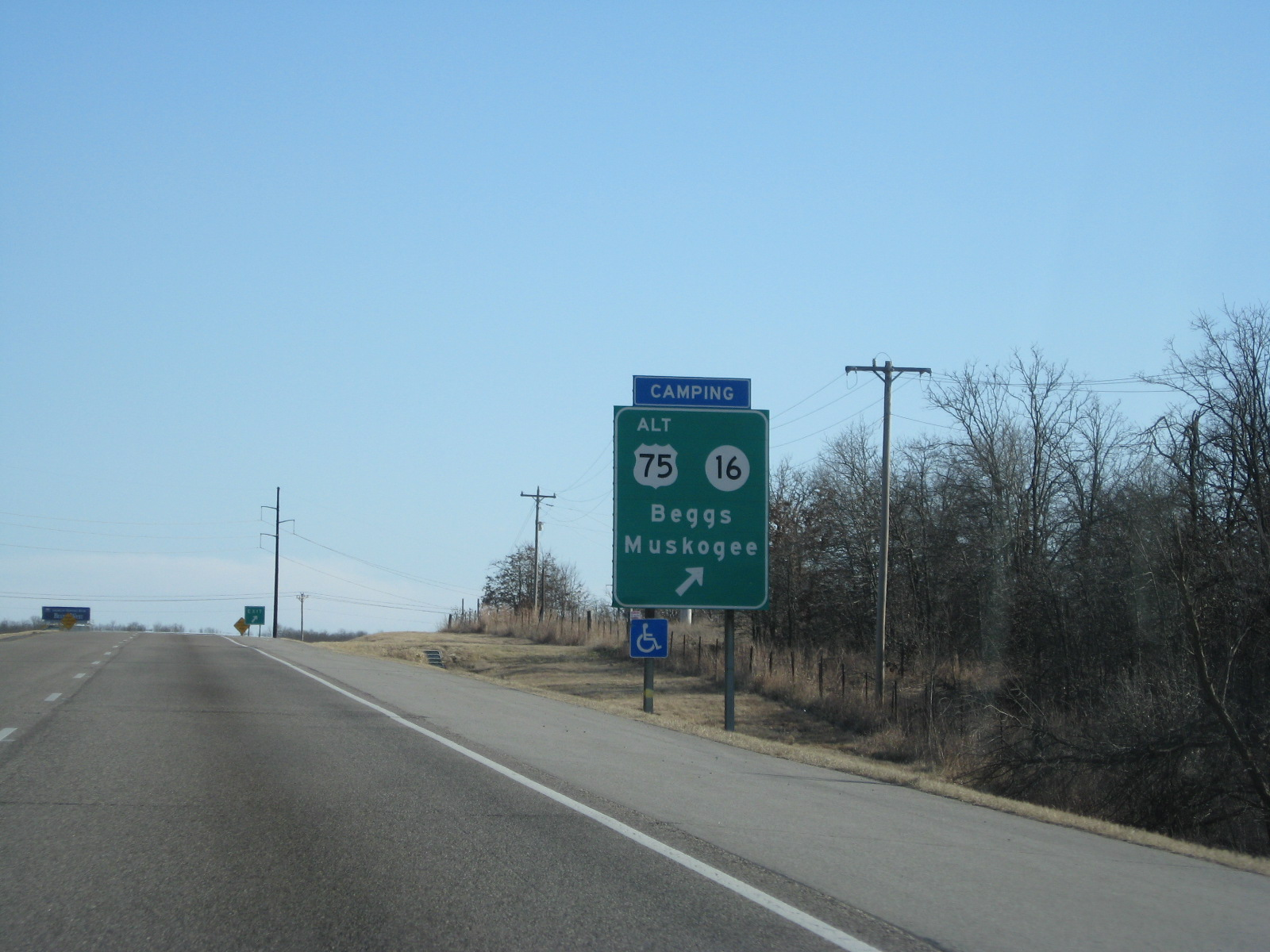 Interchange along U.S. Route 75 for US 75 ALT and SH-16.